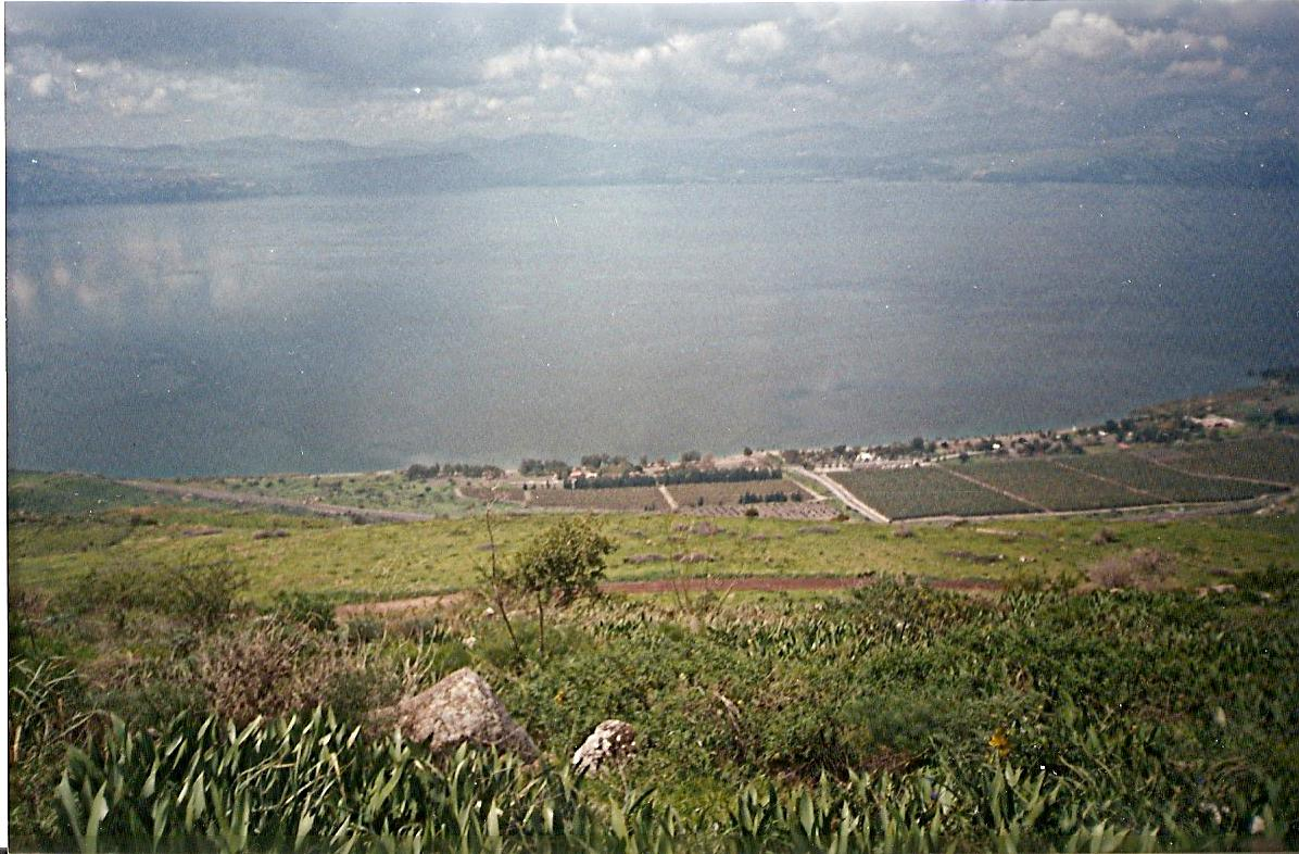 Sea of Galilee